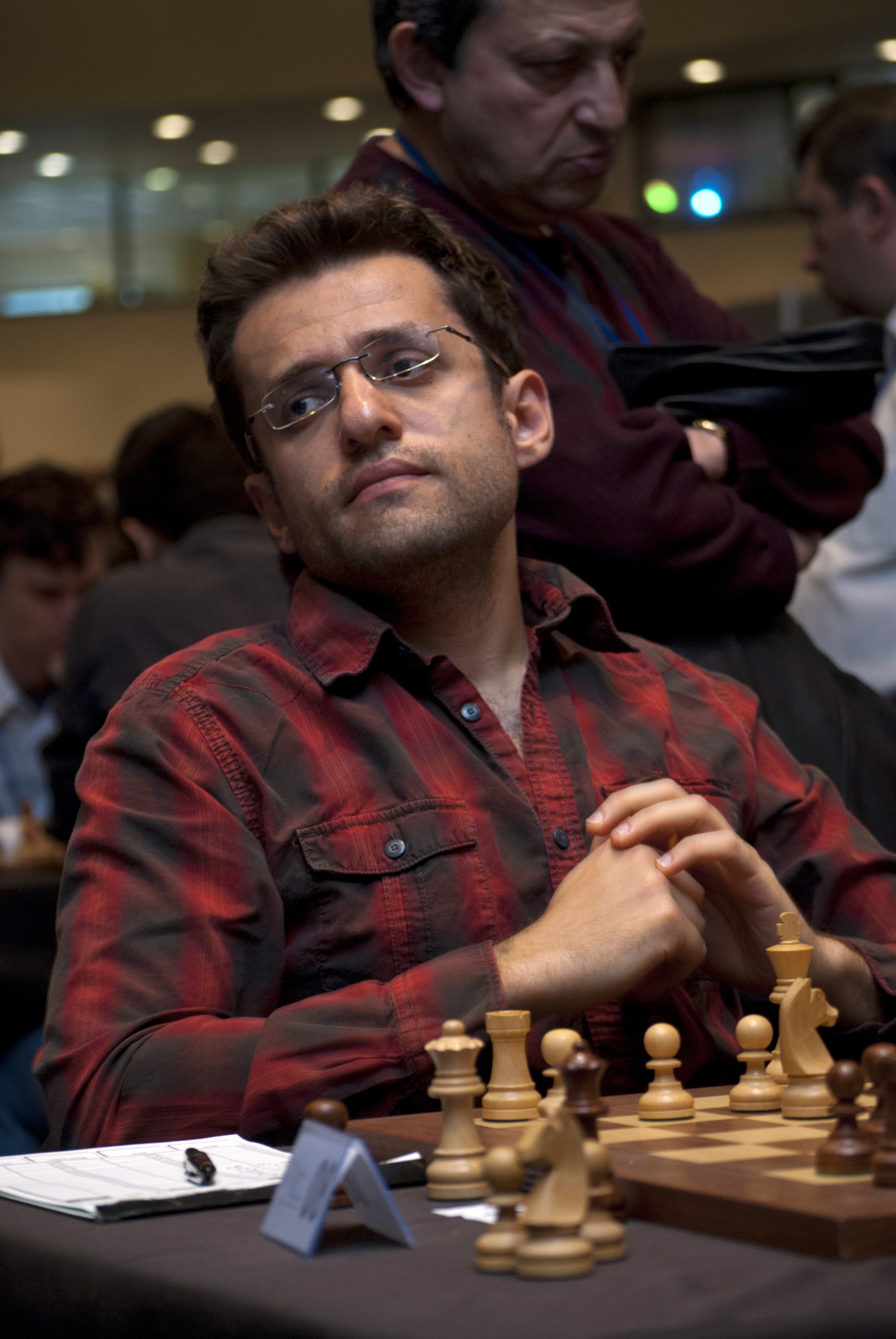 Armenian grandmaster Levon Aronian during the 2011 European Team Chess Championships in Porto Carras